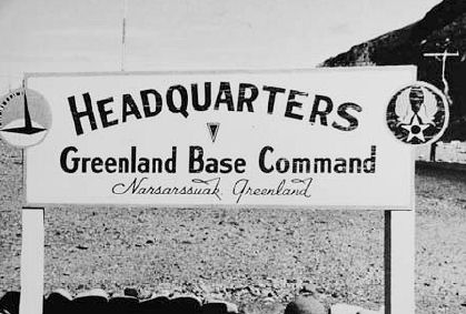 Photo of the sign of Headquarters, Greenland Base Command, 1943